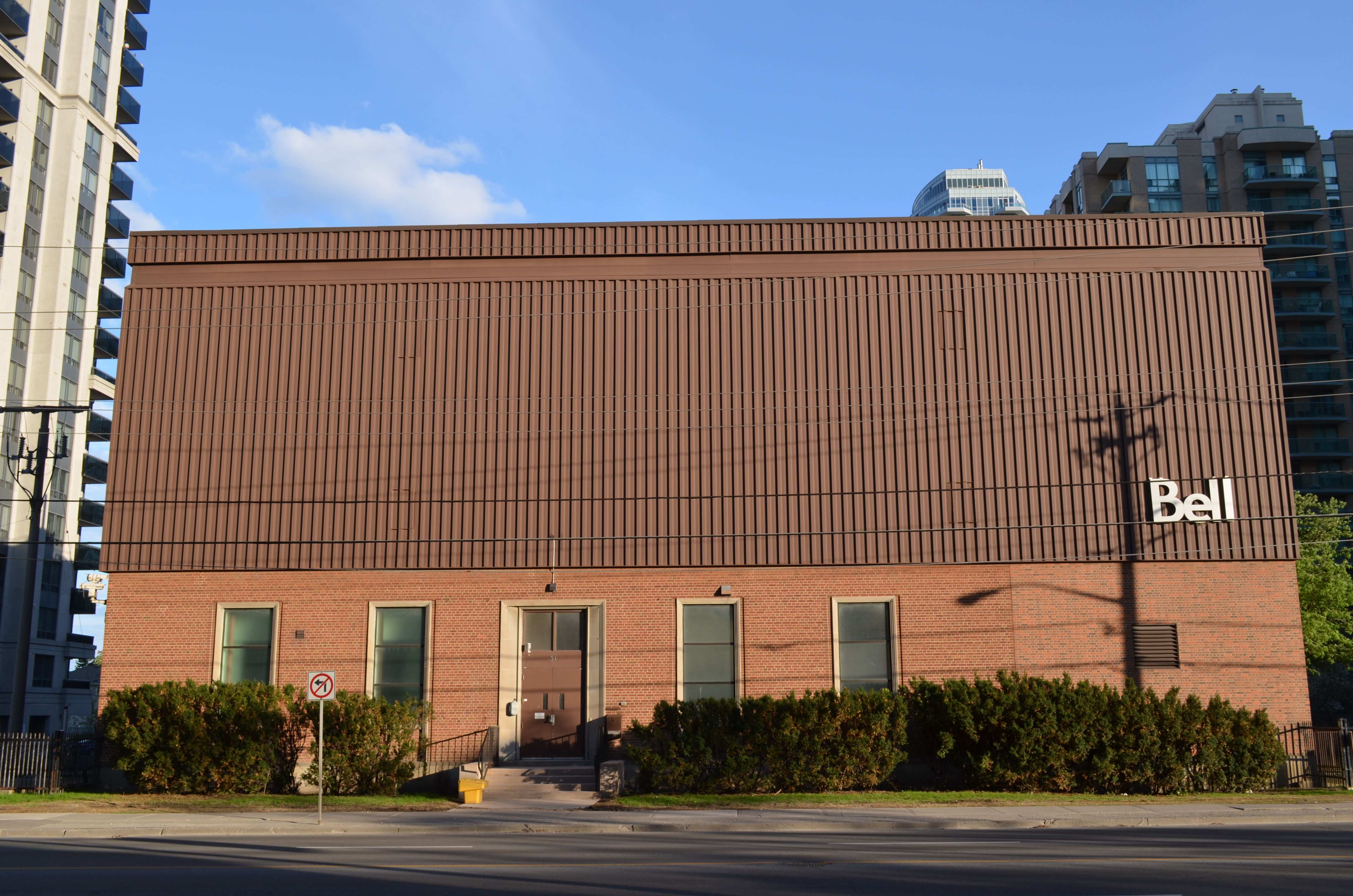 Bell Central Office at 31 Finch Avenue East